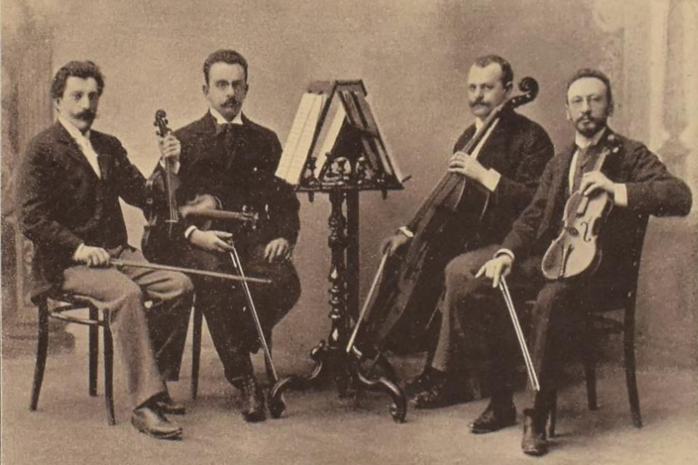 Rudolf Fitzner's string quartet: Rudolf Fitzner, Jaroslav Czerny, Friedrich Buxbaum, Otto Zert